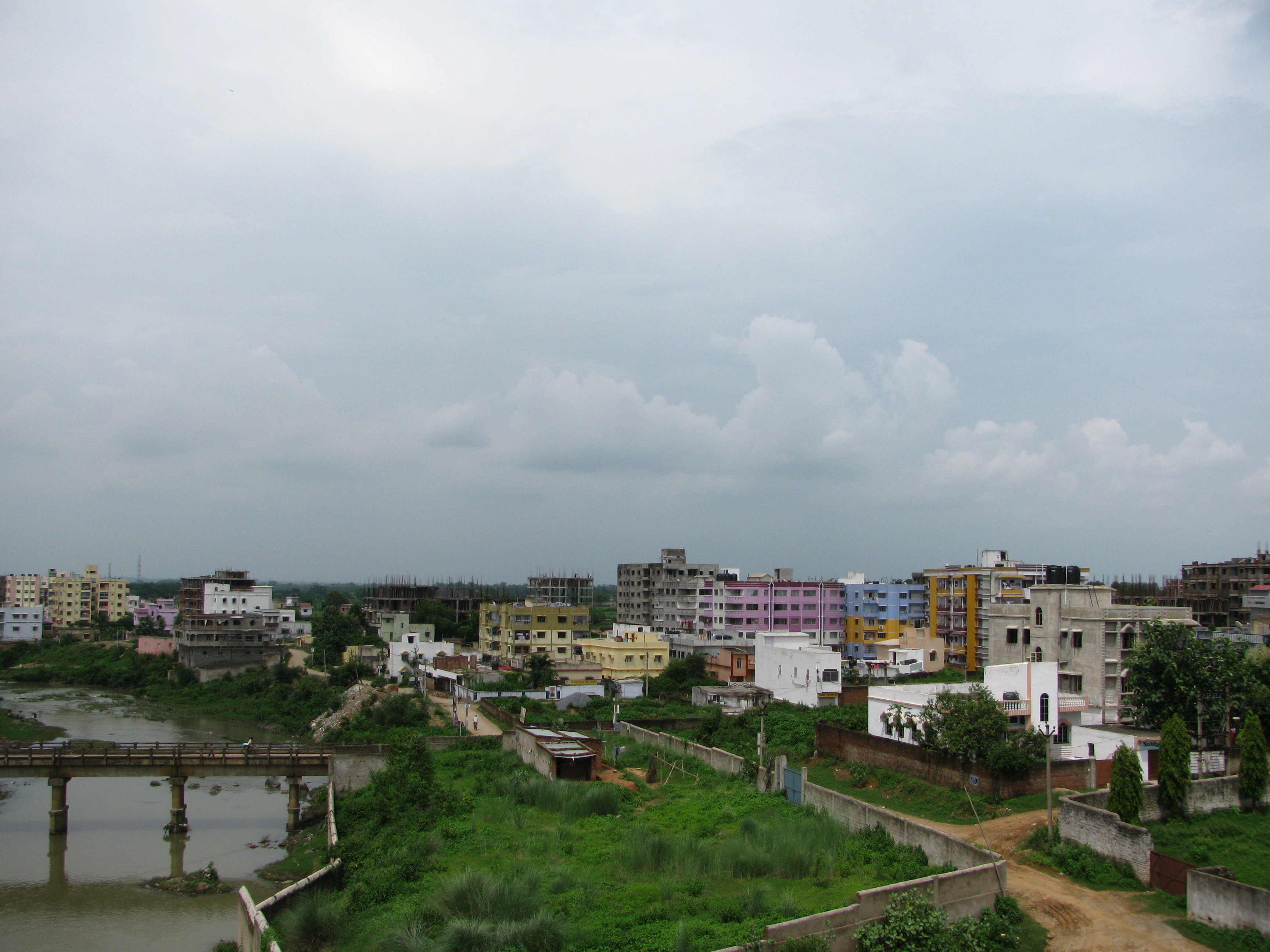 Suburb of Bokaro Steel City